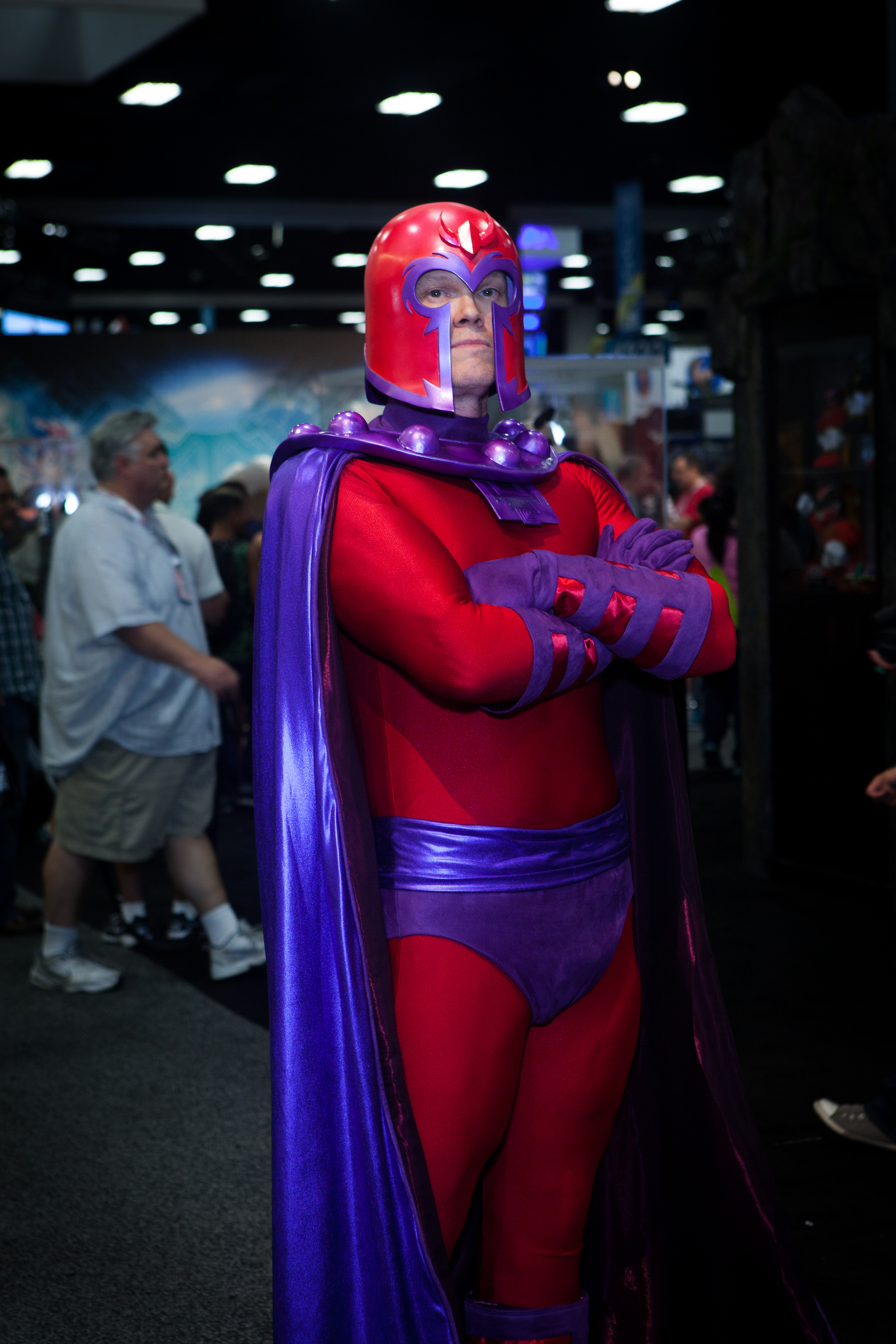 Cosplay of Magneto